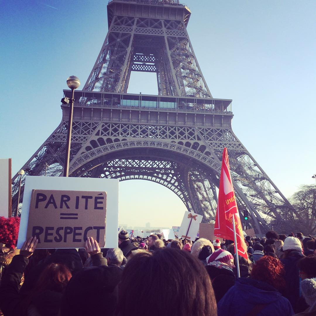 Part of the 2017's Women's March on Washington action day.